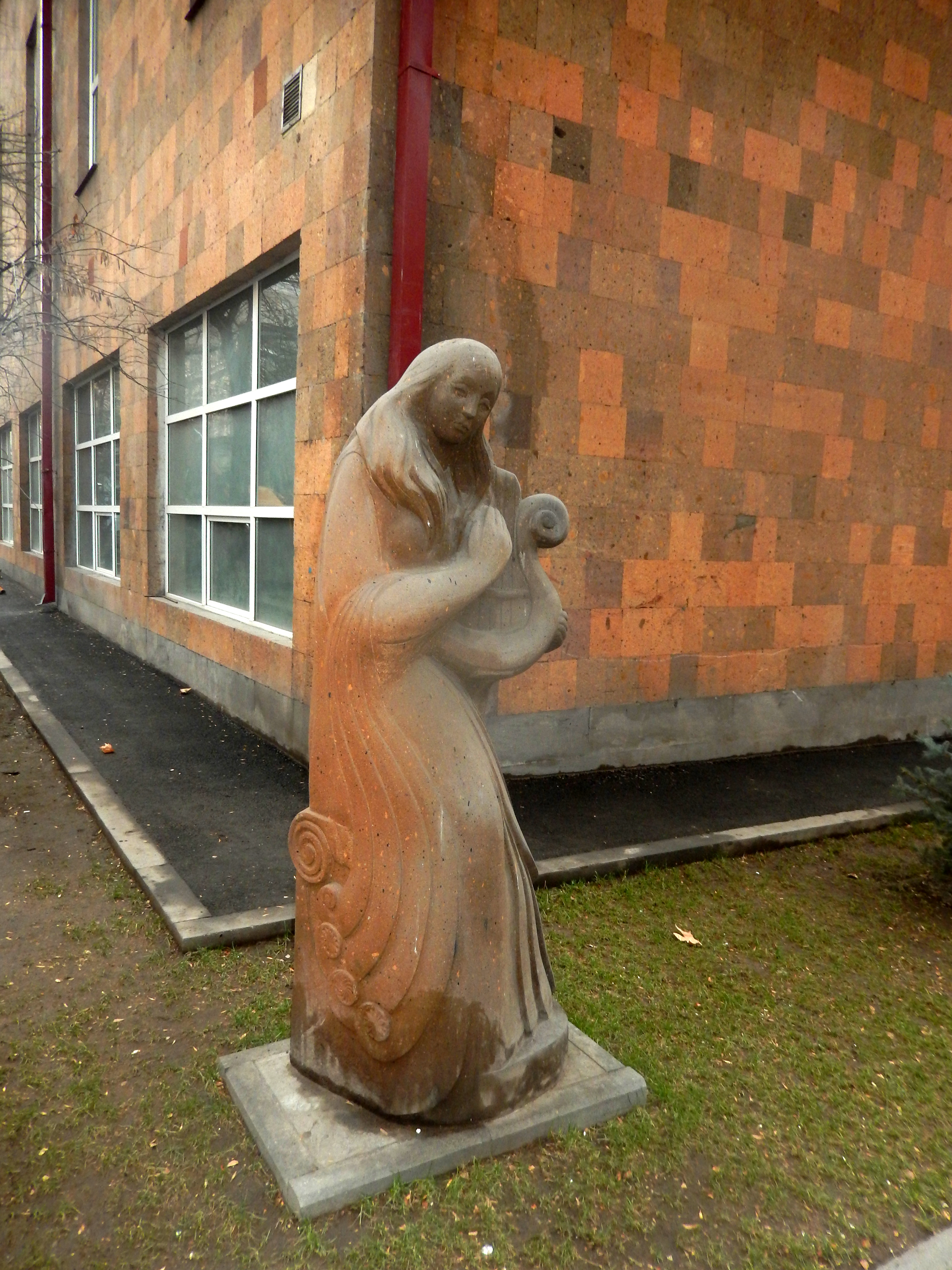 Monument in front of Tchaikovsky Music School, Yerevan